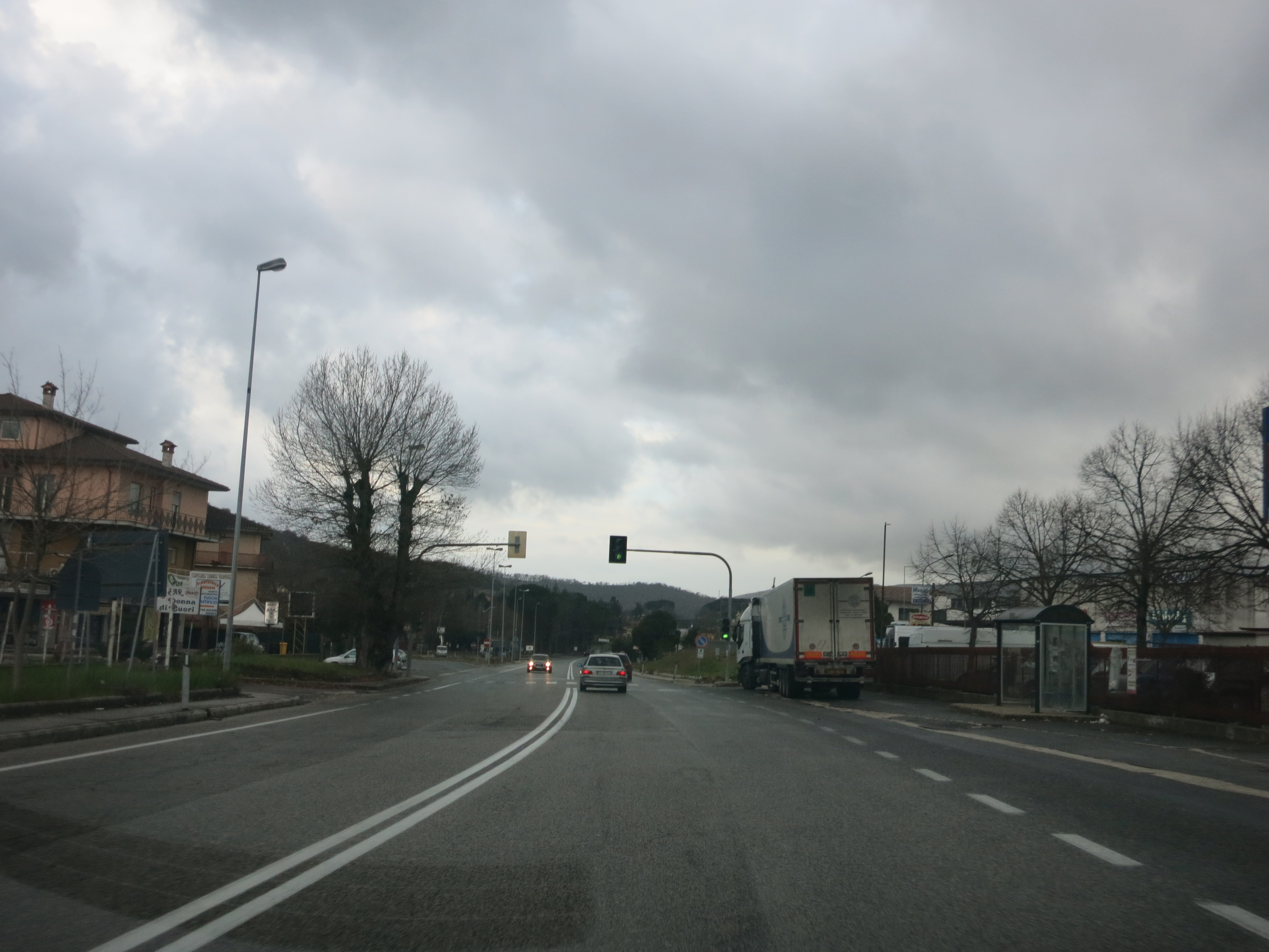 Italian State Road n. 4 Via Salaria, lane heading to Rome